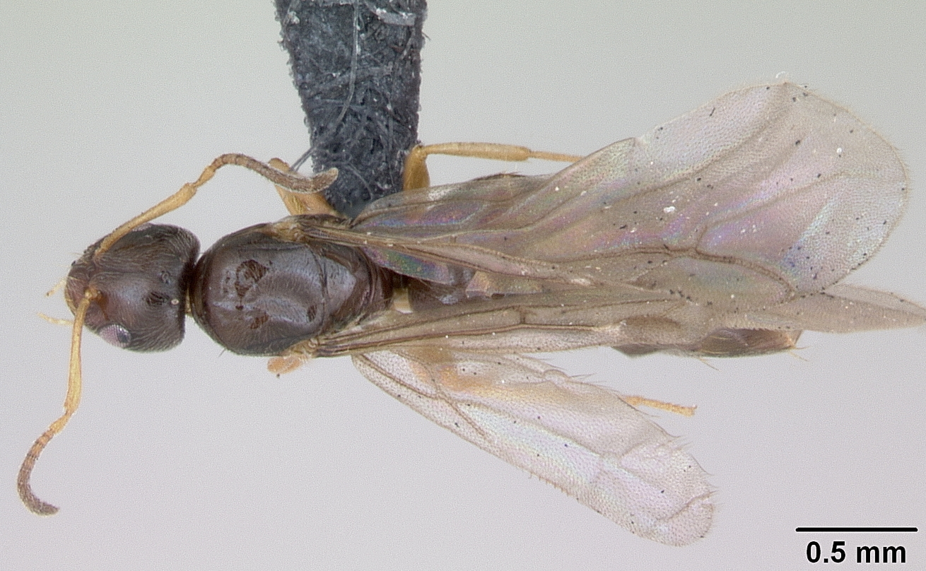 Dorsal view of ant Plagiolepis pygmaea specimen casent0173130.